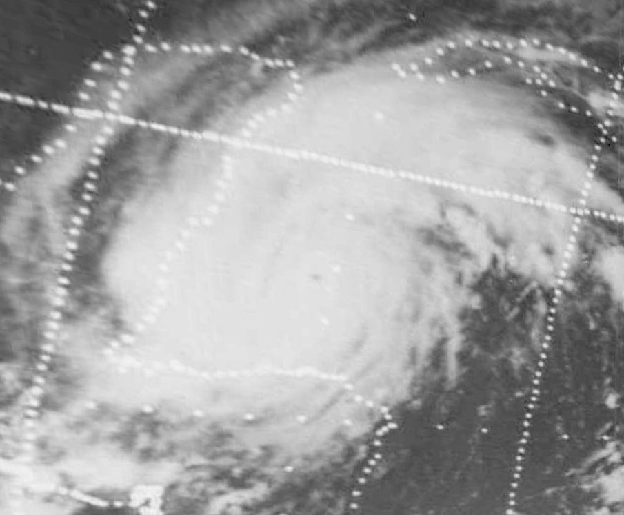 Hurricane Carmen on September 1, 1974, as seen from satellite.